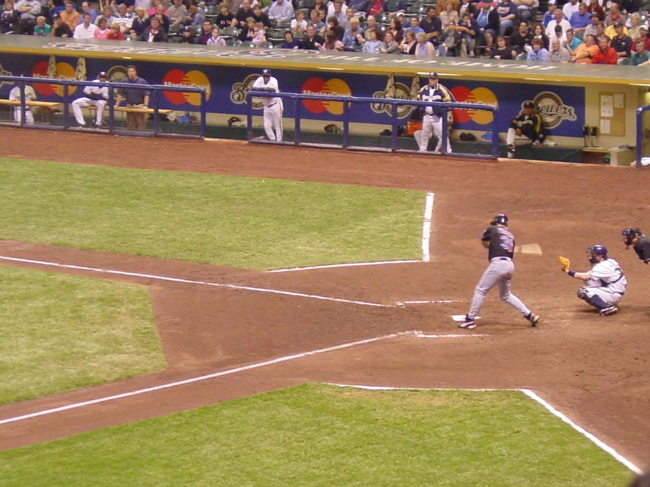 Mike Piazza up to bat against Milwaukee Brewer pitcher Doug Davis.